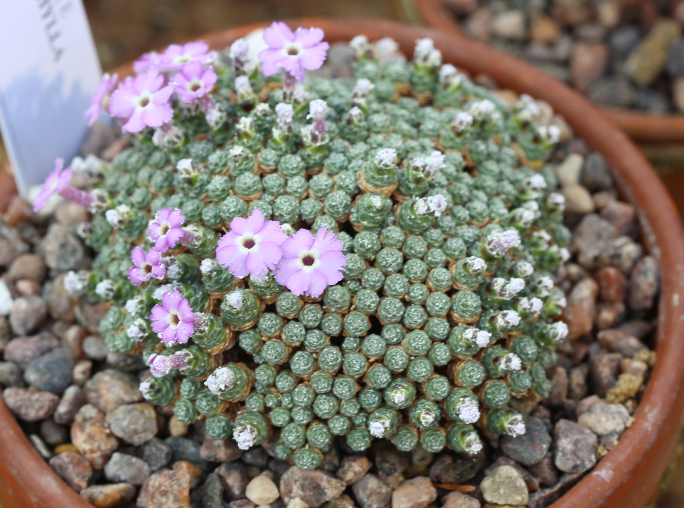 Dionysia microphylla at Gothenburg Botanical Garden 2015. Plant id: 1984-0766 p U -- Watson, E (GW & H 1302)